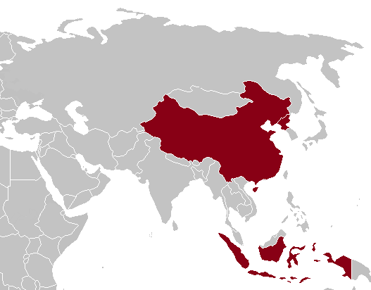 1976 Summer Olympics boycotting countries (blue color on the map)